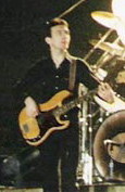 John Deacon in 1979